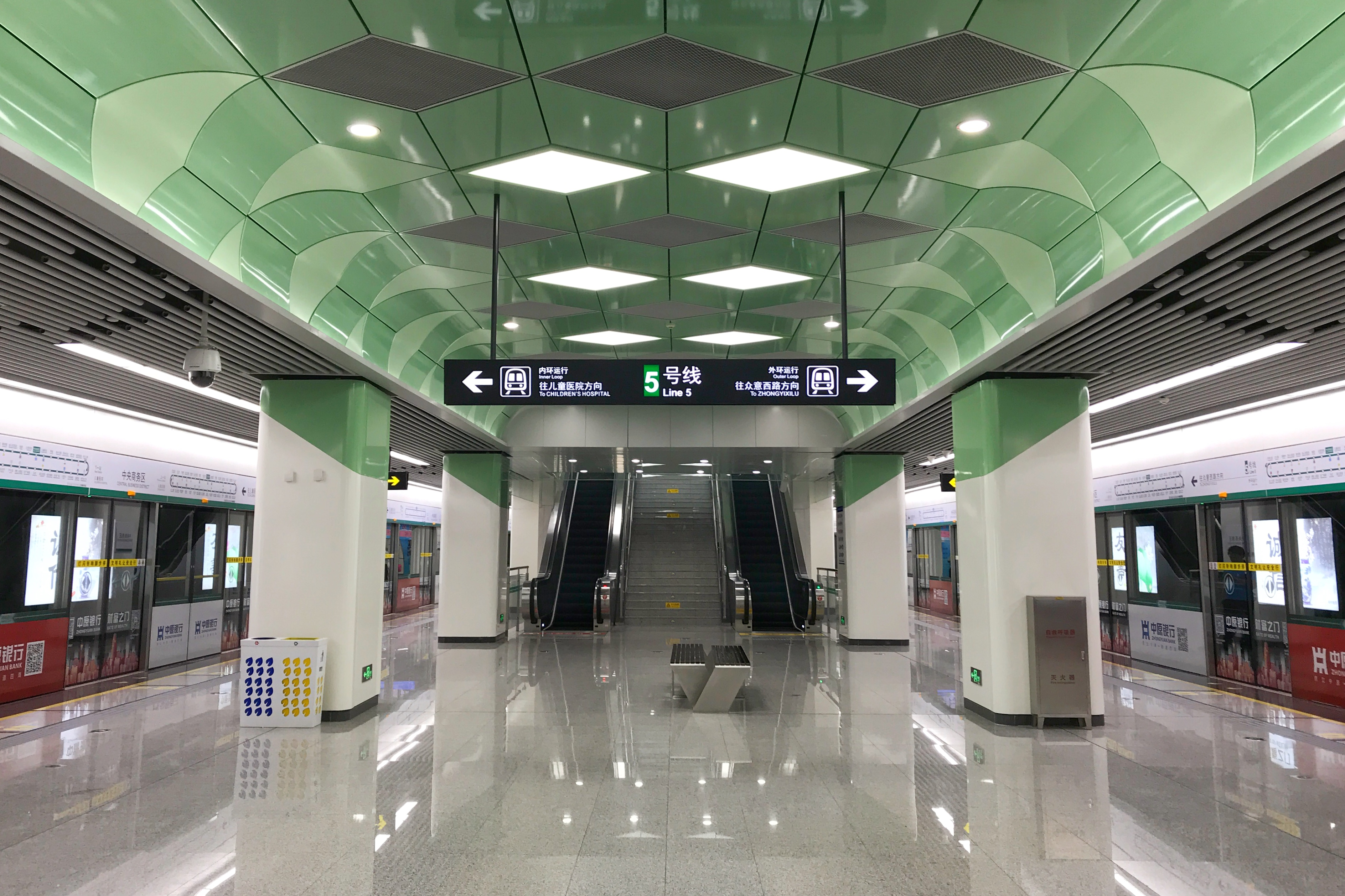 Platform of Central Business District Station of Zhengzhou Metro